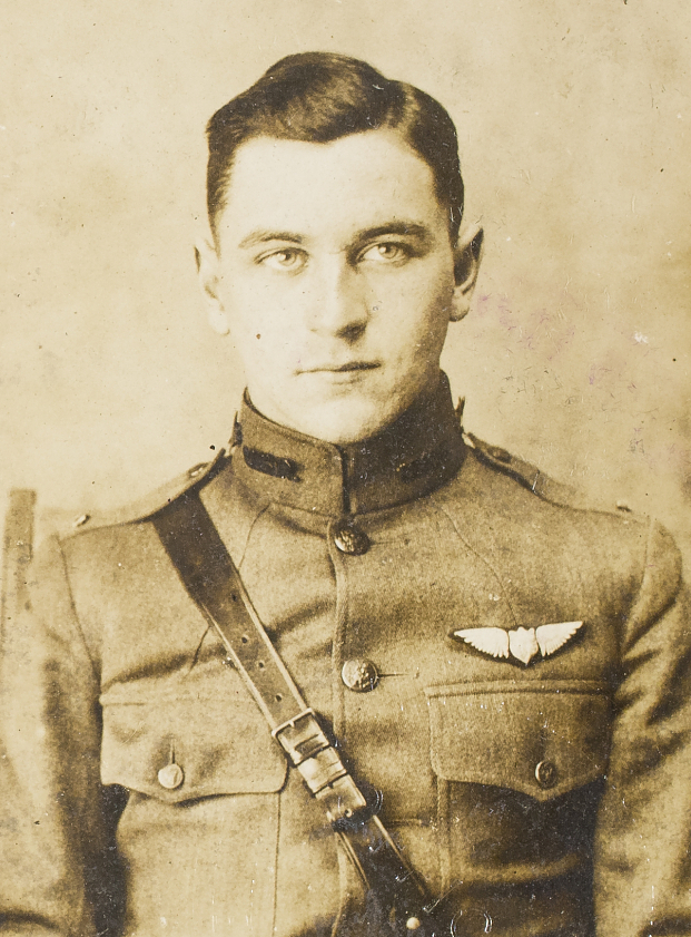 Card, Identification, United States Army Air Service, Arthur Raymond Brooks, The Smithsonian National Air and Space Museum.